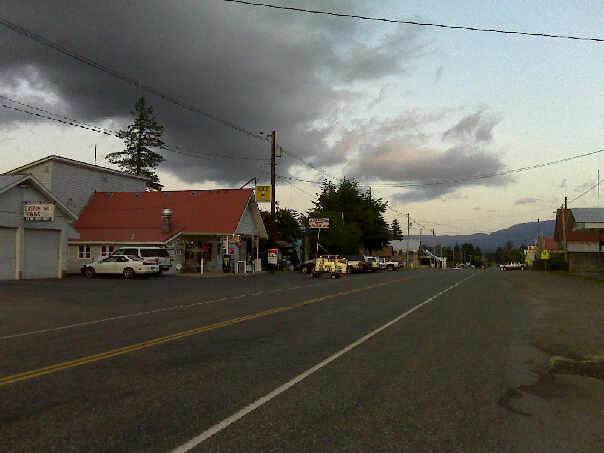 A view of Easton, WA from the west side of town